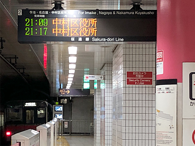 The "slashed zero" displayed on the platform display manufactured by NEC Corporation Photo at Tokushige station, Nagoya Japan.